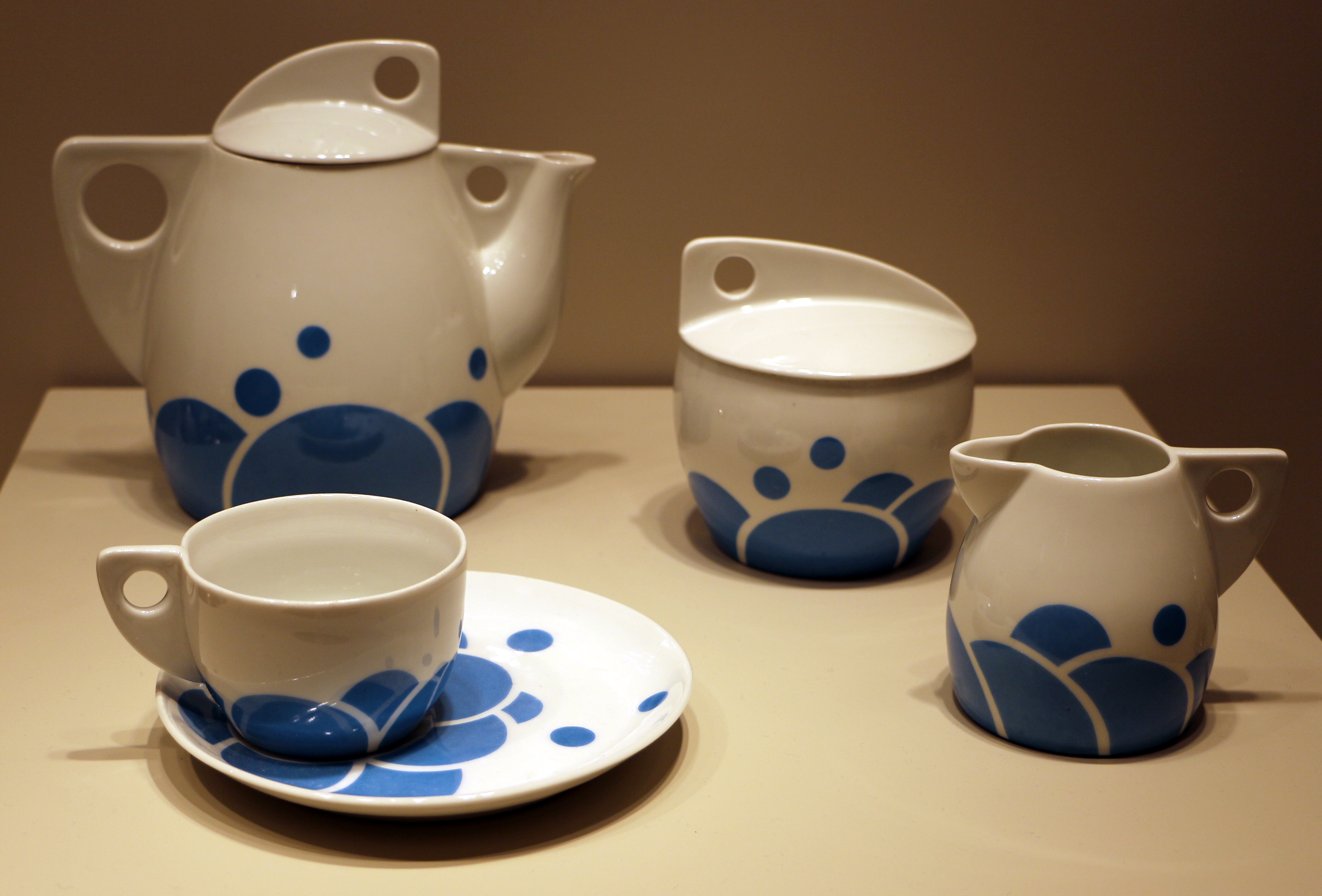 European pottery in the Art Institute of Chicago